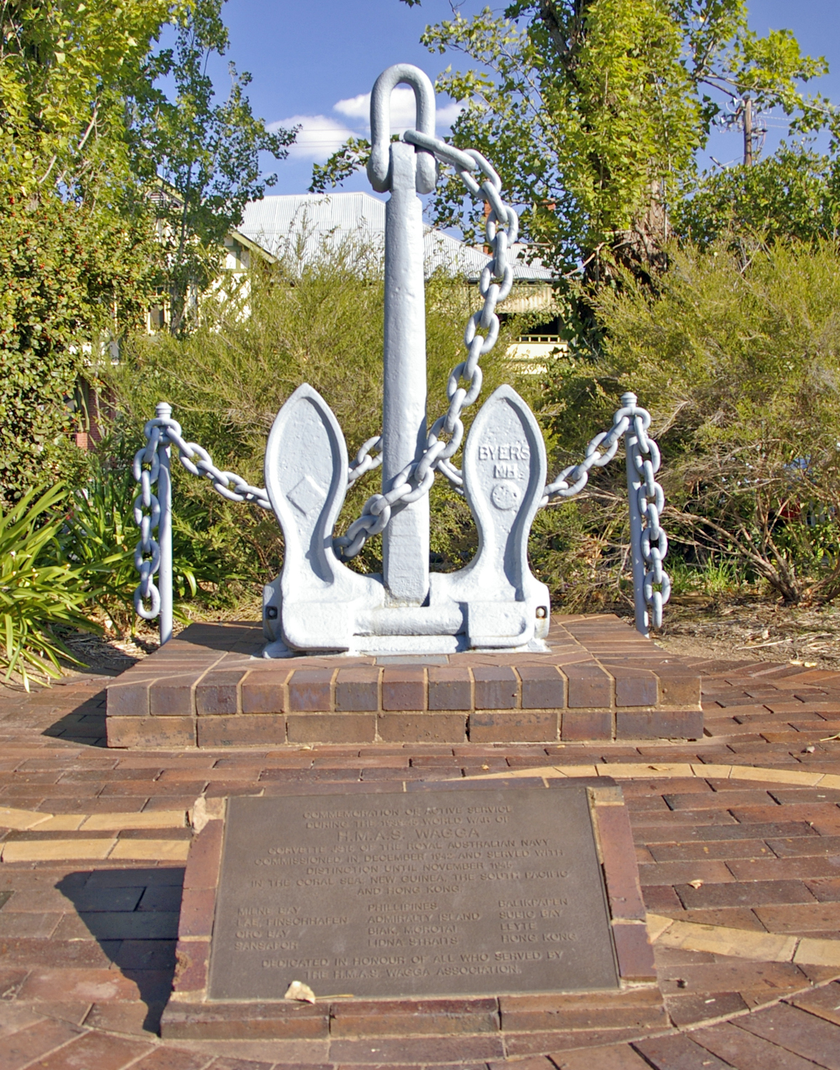 HMAS Wagga anchor in the Victory Memorial Gardens, Wagga Wagga.